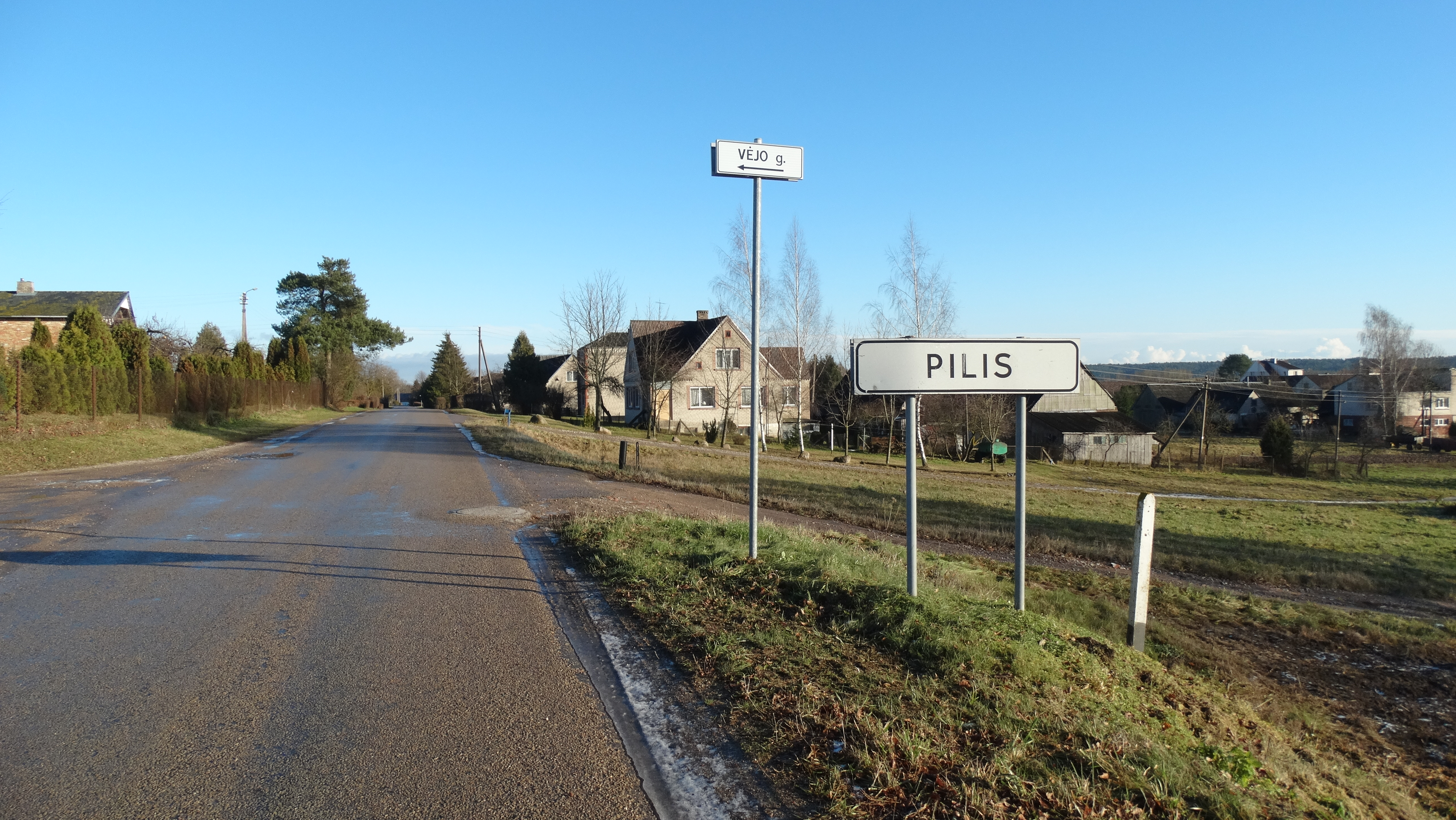 Pilis I (formerly Vytėnai), Jurbarkas district, Lithuania